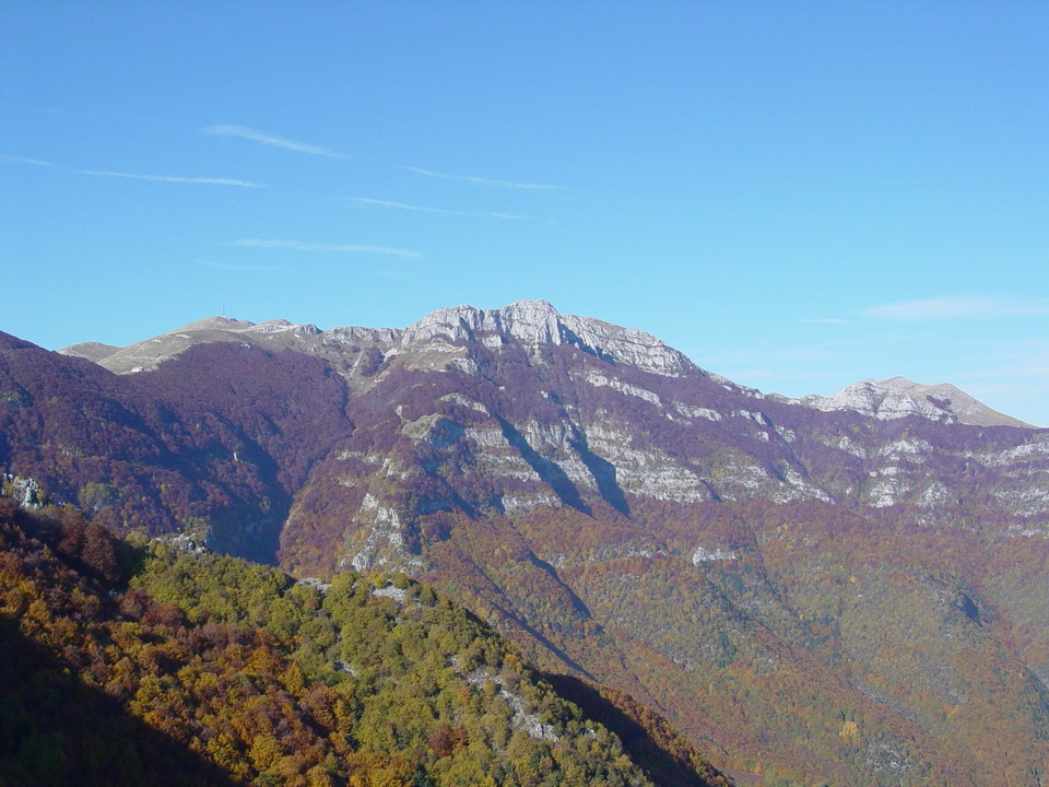 Pangaion Mountain.